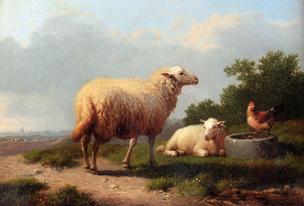 Sheep In A Meadow